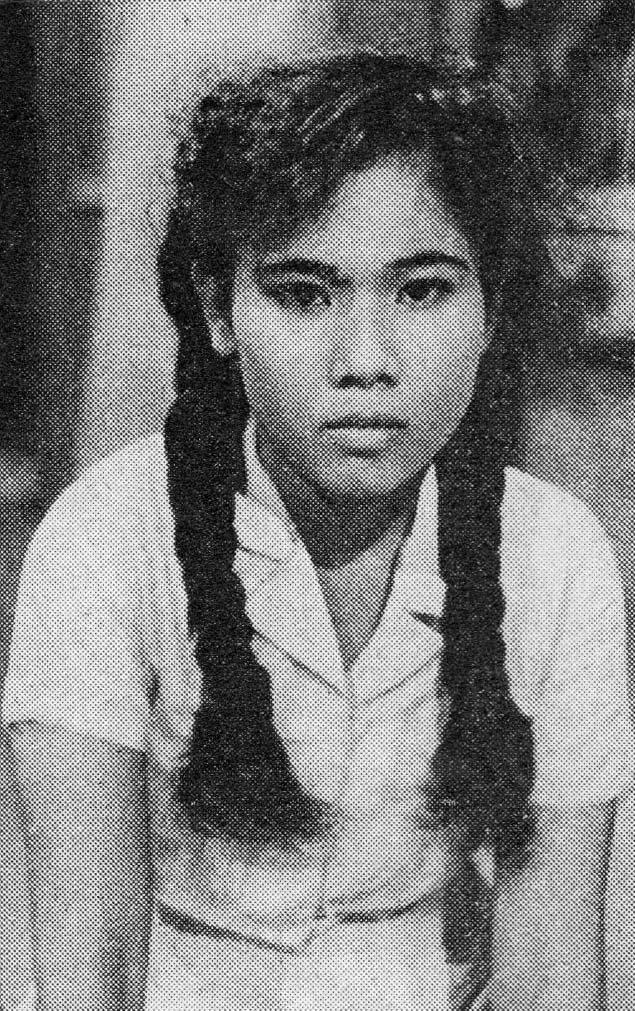 Indonesian actress Hasnah Tahar